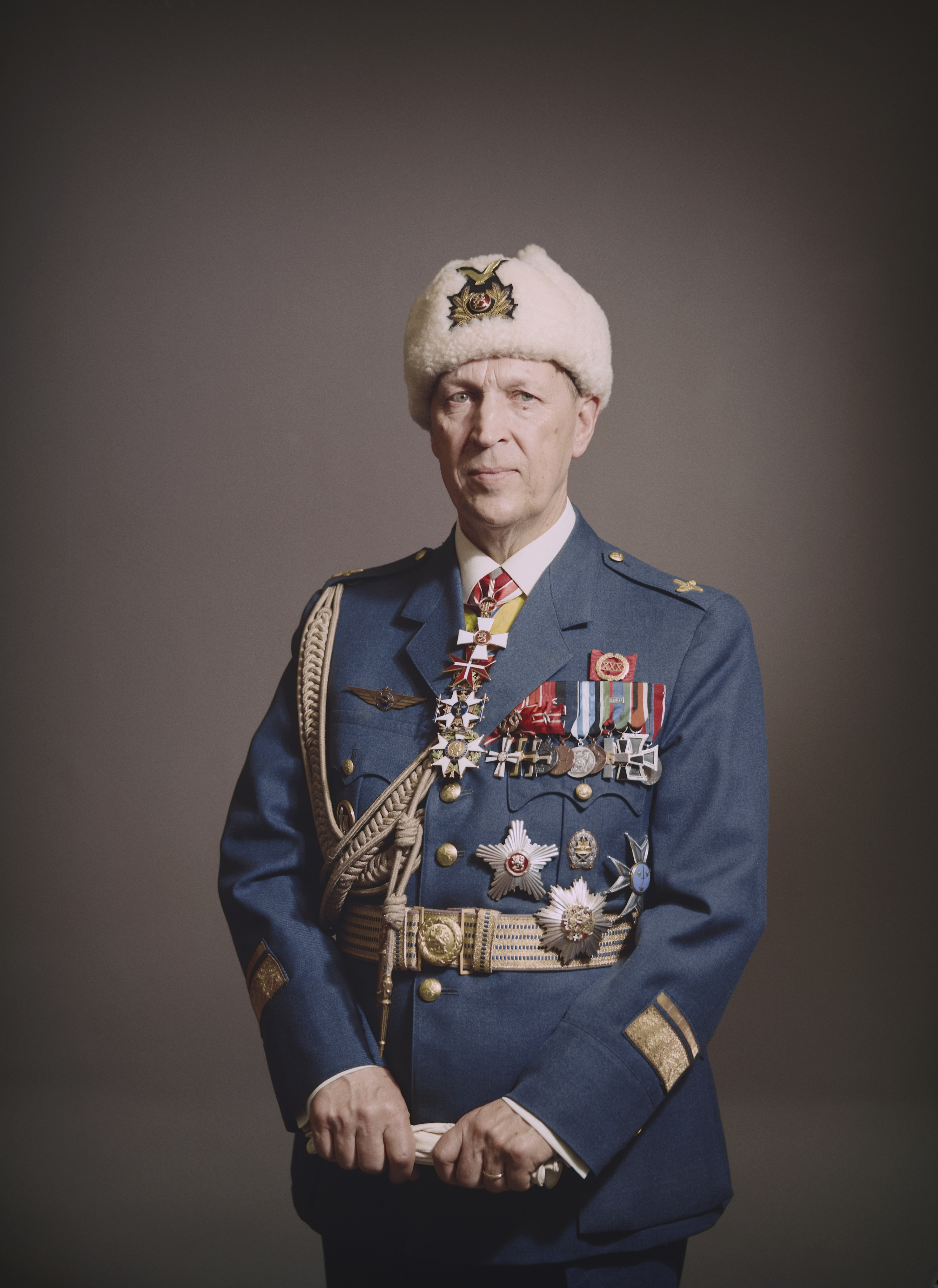 Photograph of the Finnish military pilot, major general Olavi Seeve (1909–1973).